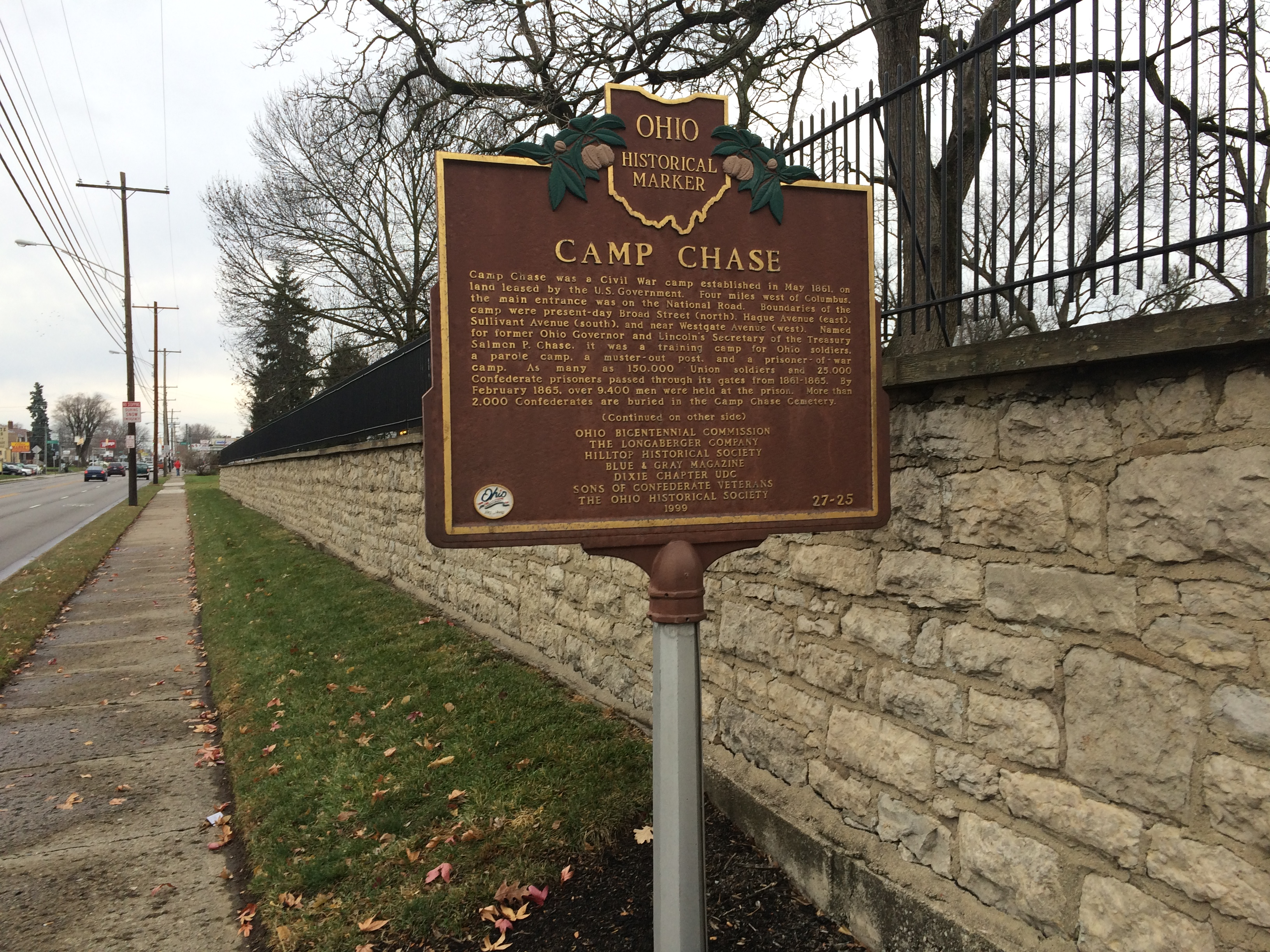 Not available